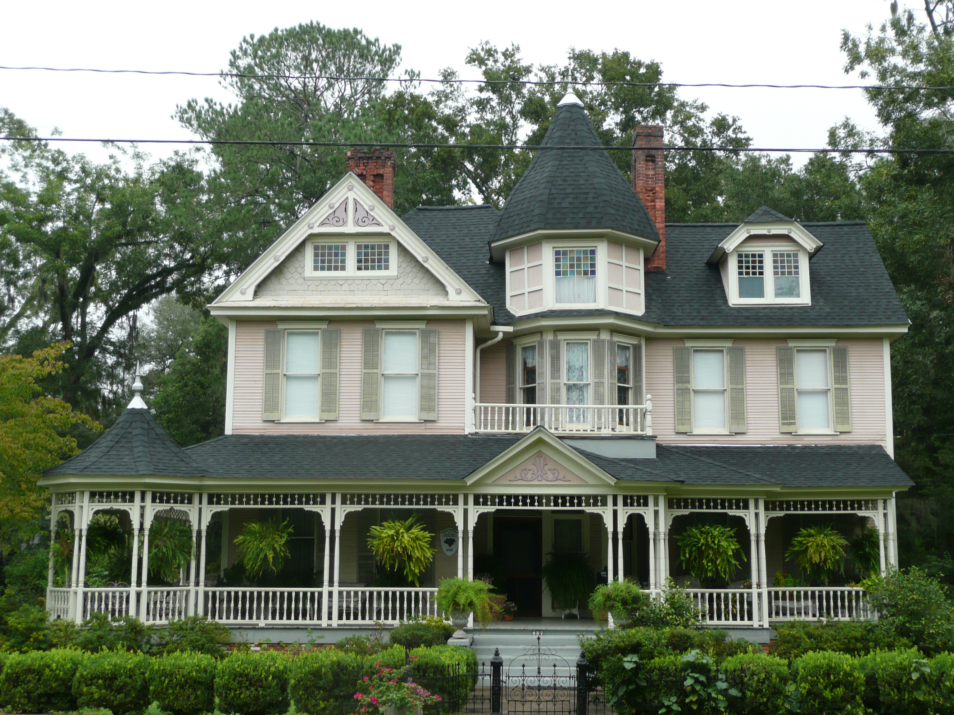 House in Bainbridge, Georgia, USA